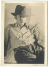 Photograph of actor Barry Norton, born in Argentina and based in Hollywood